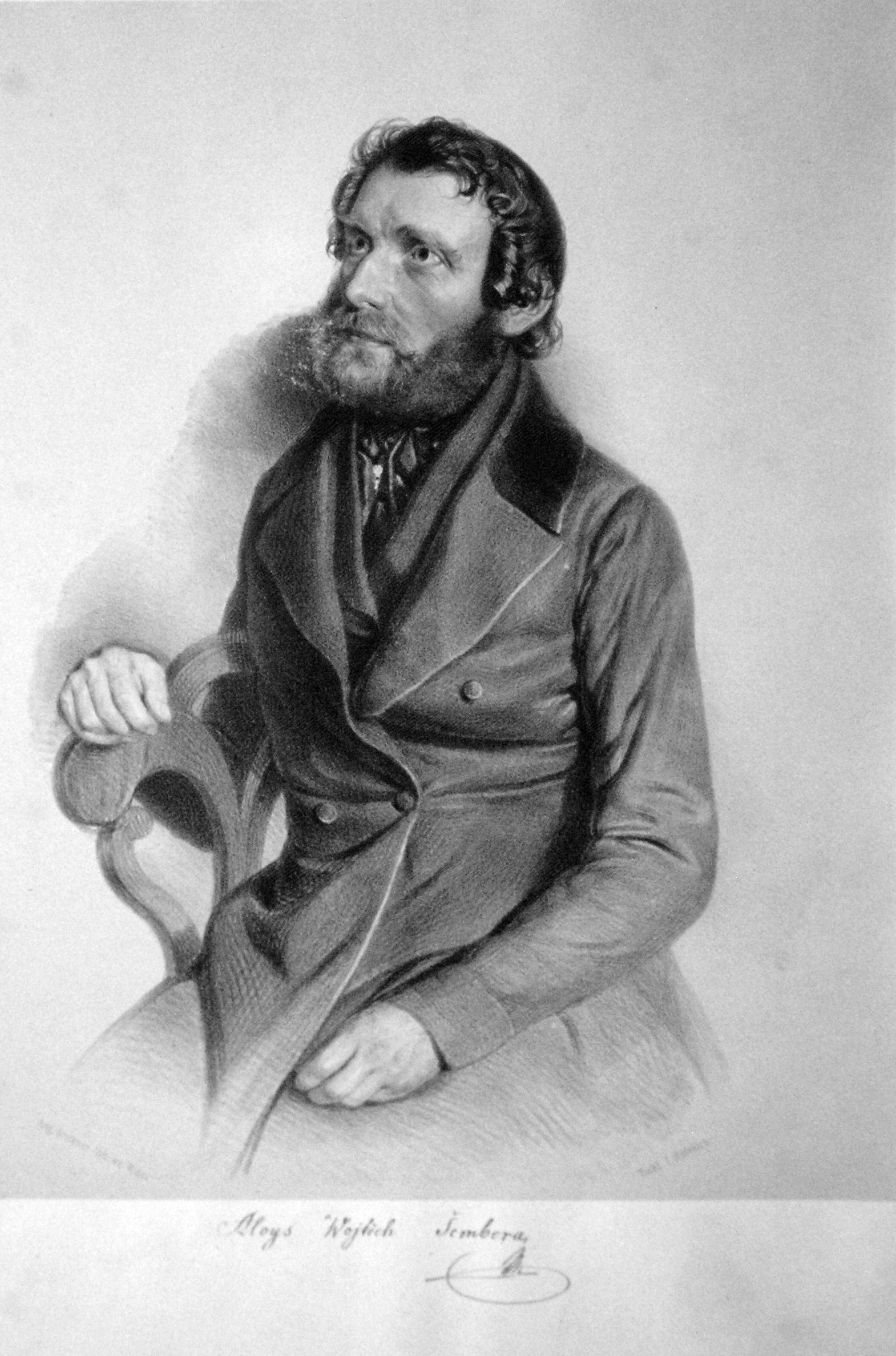 Alois Vojtěch Šembera (1807-1882) Czech Philologist and translater Lithograph by August Strixnar, about 1850